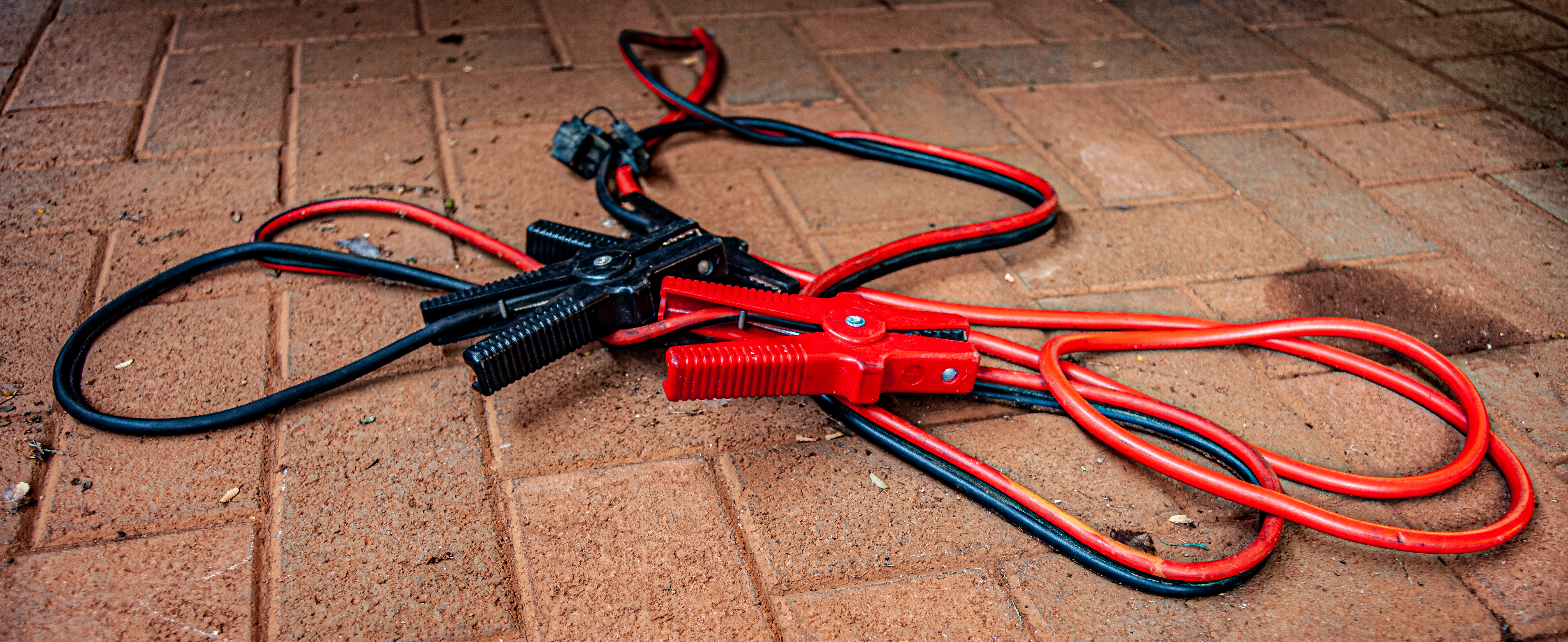 this was taking in a lot in Pretoria, South Africa